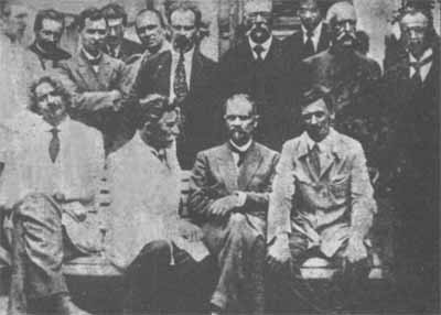 Provisional Government of Autonomous Siberia